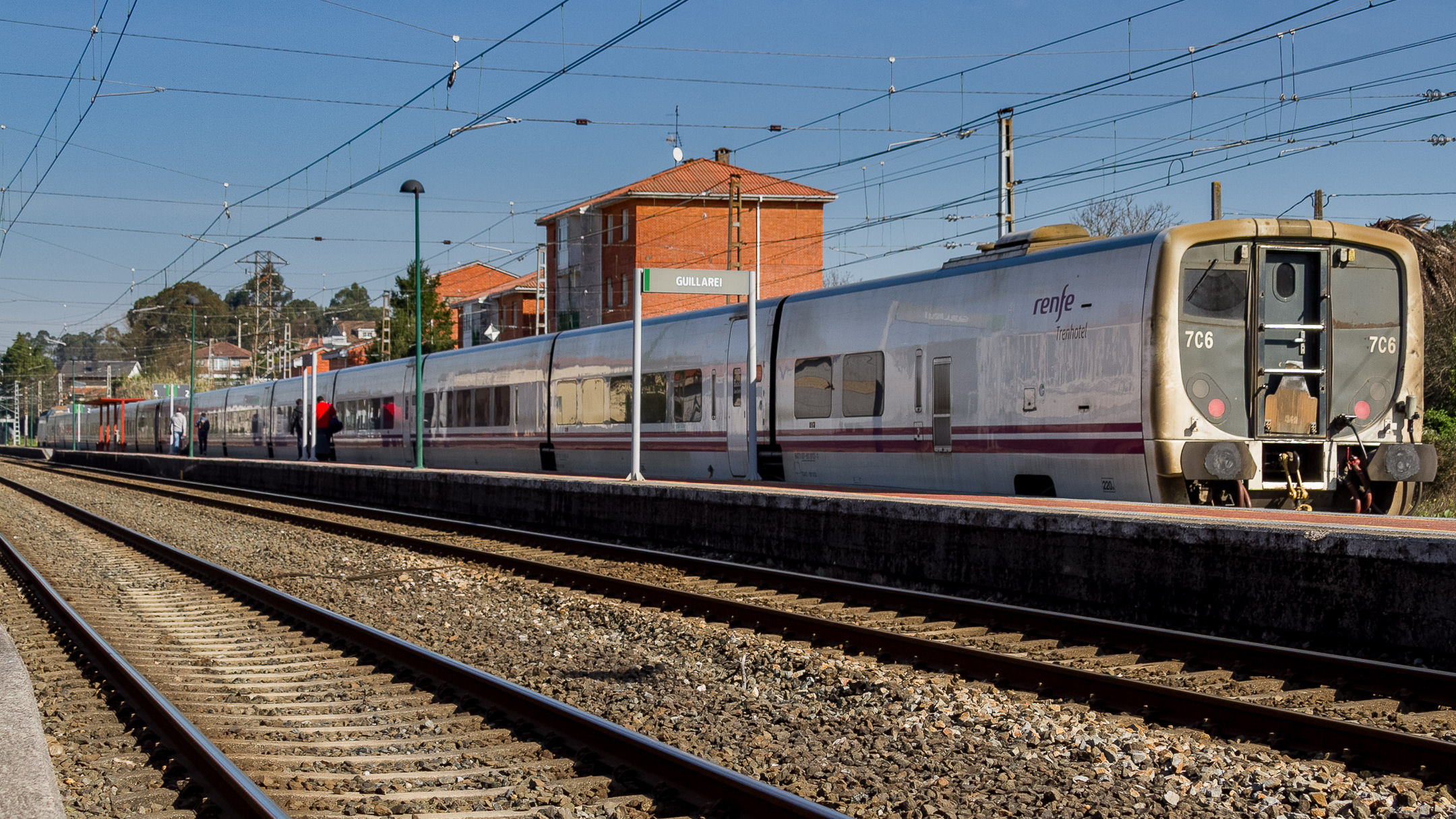 Trenhotel of RENFE from Barcelona with destination Vigo doing a stop in the Guillarei Station.